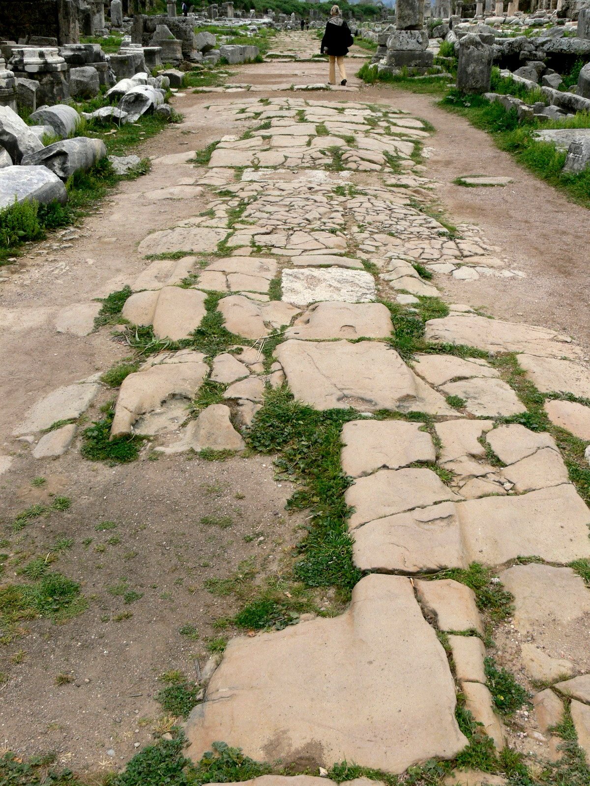 Perge ( Antalya/Turkey ). Cobblestones at the main street.